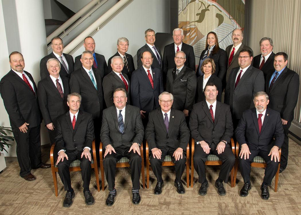 The current Illinois Farm Bureau Board of Directors